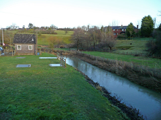 River Camlad at Churchstoke Flowing north to meet the Severn near Montgomery.